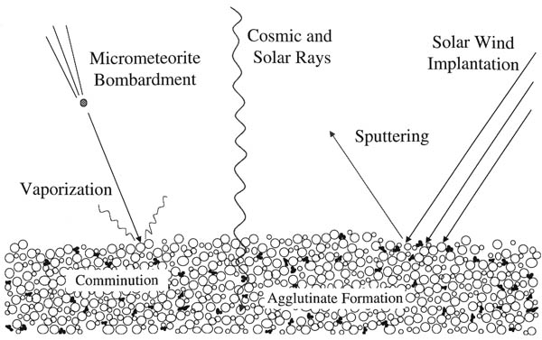 Cartoon showing the different components of space weathering